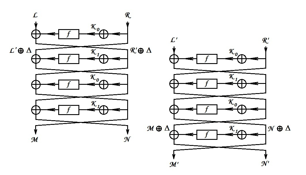 The diagram illustrates the complementation slide modification of the slide attack